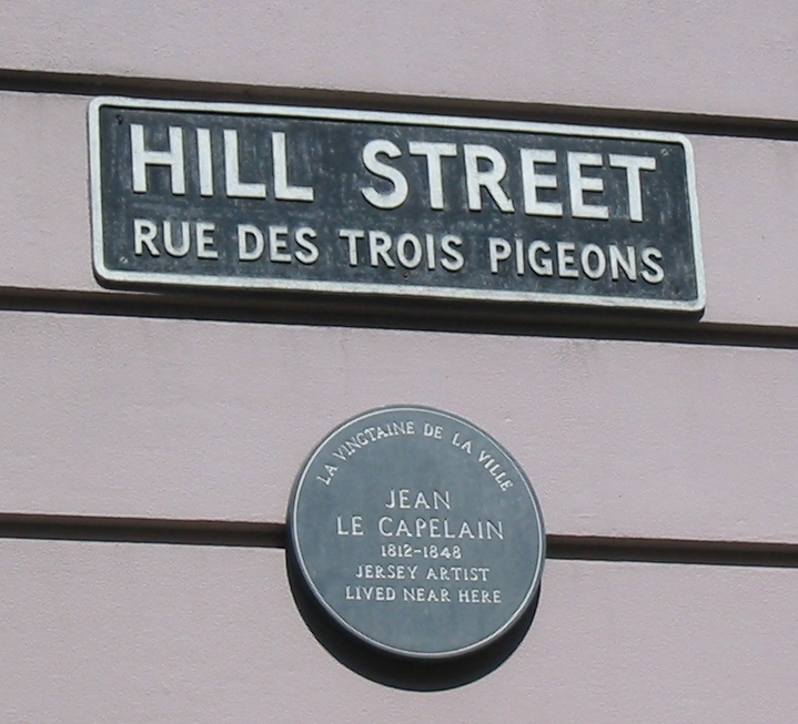 States Building, Jersey